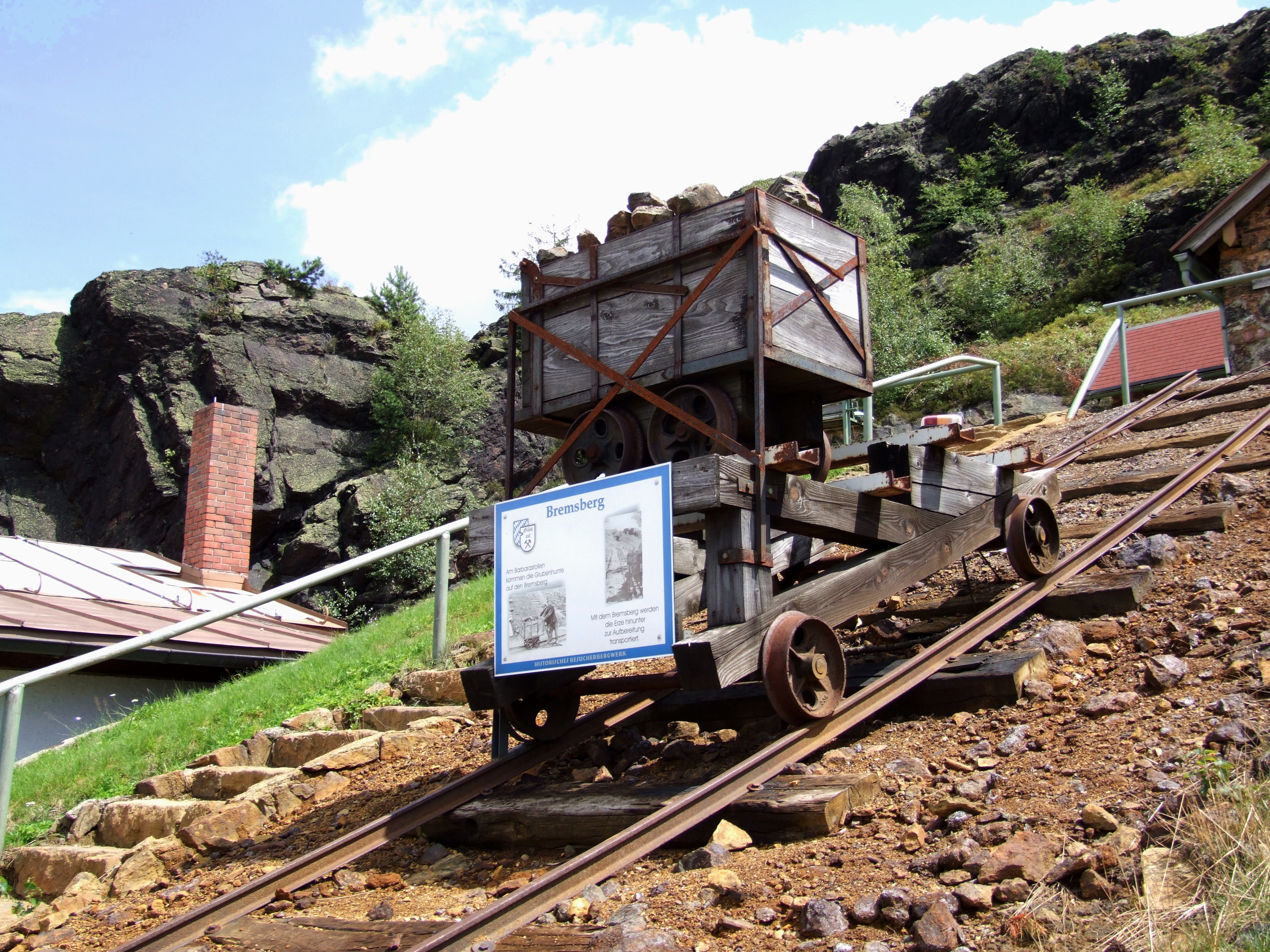 brake incline; Exhibition Mine Silberberg, Bodenmais